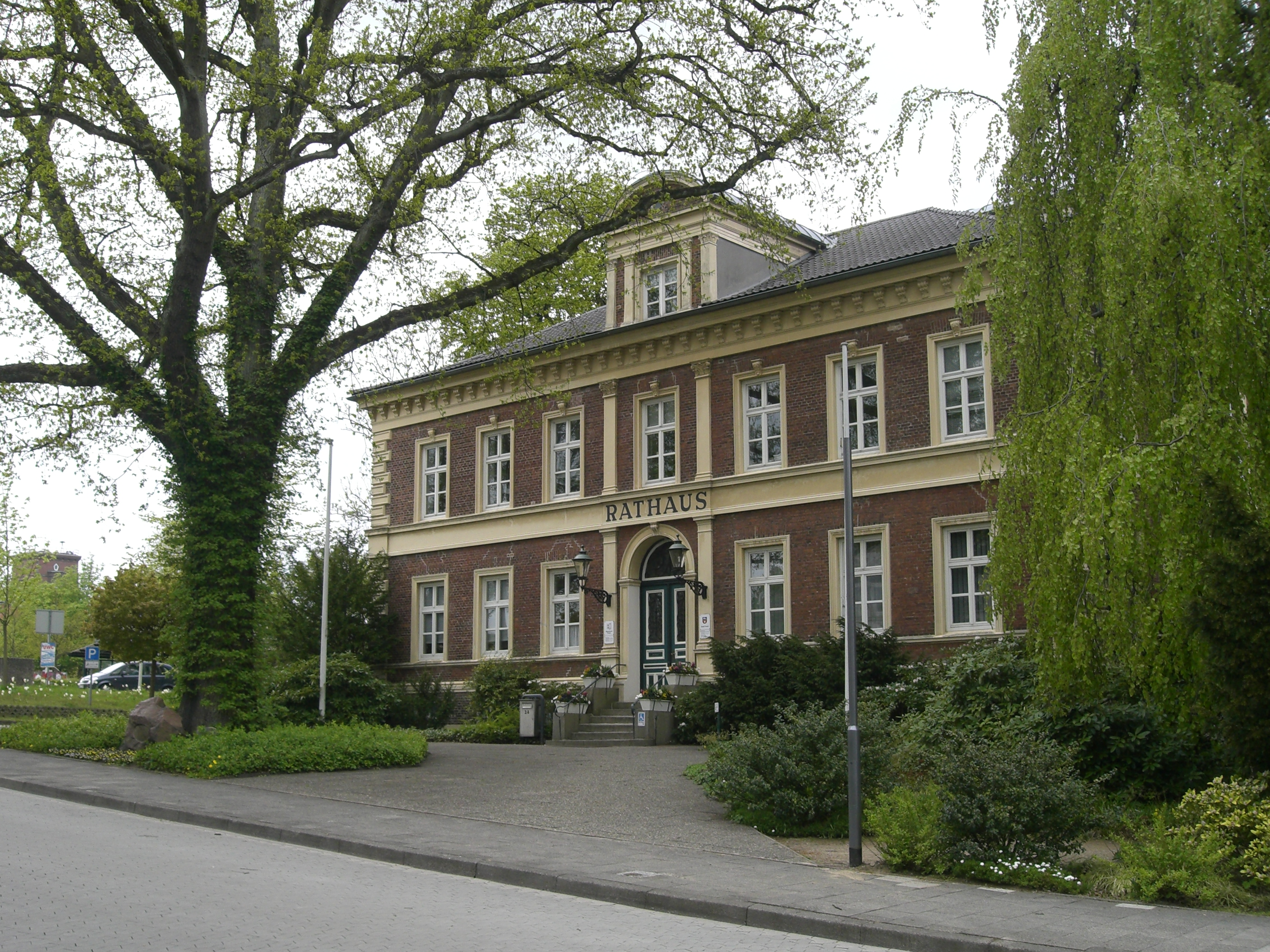 town-hall of Preetz, Schleswig-Holstein, Germany, built 1871